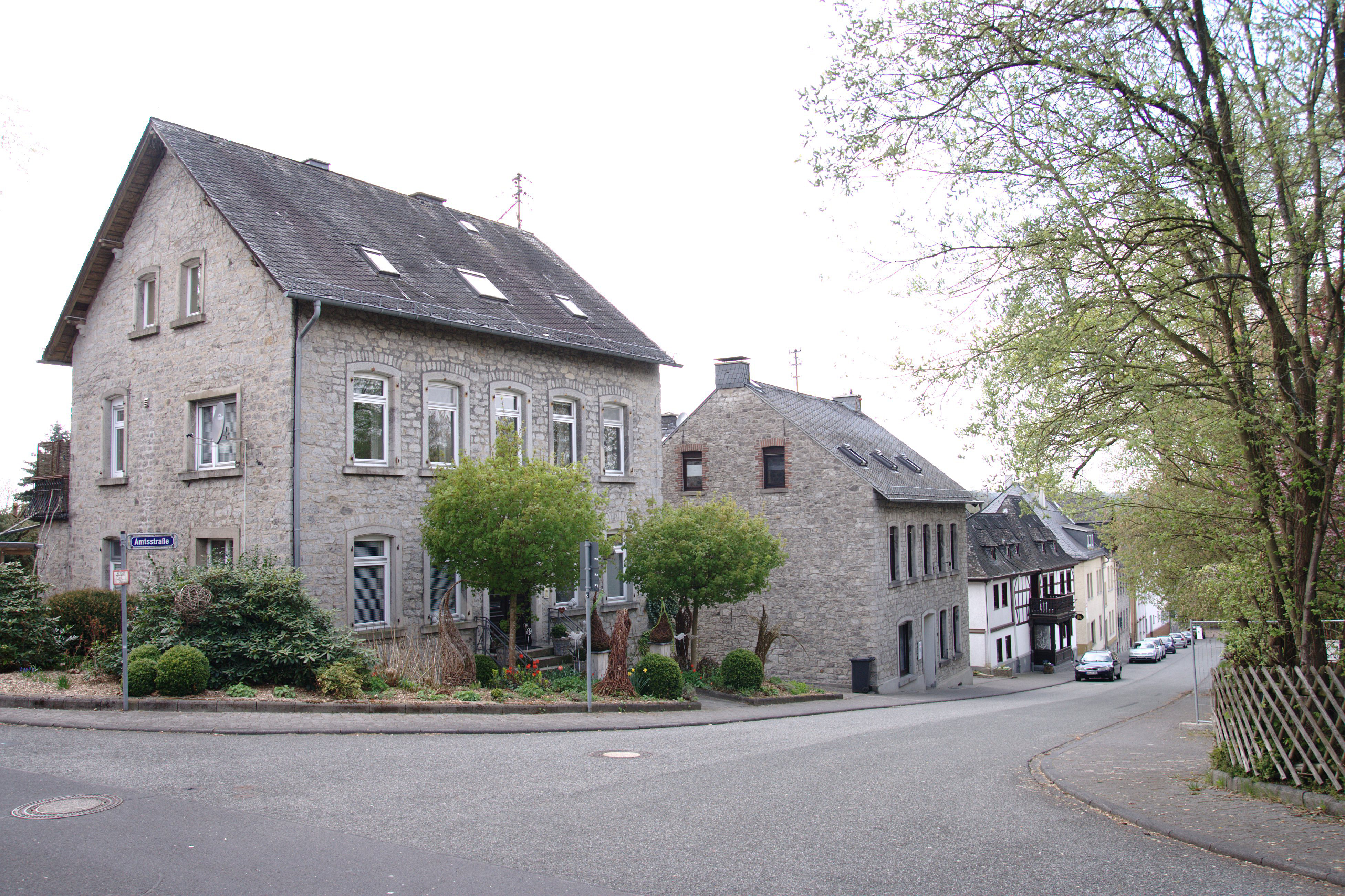 Town Selters, Westerwald, Germany. View from south into Amtsstraße